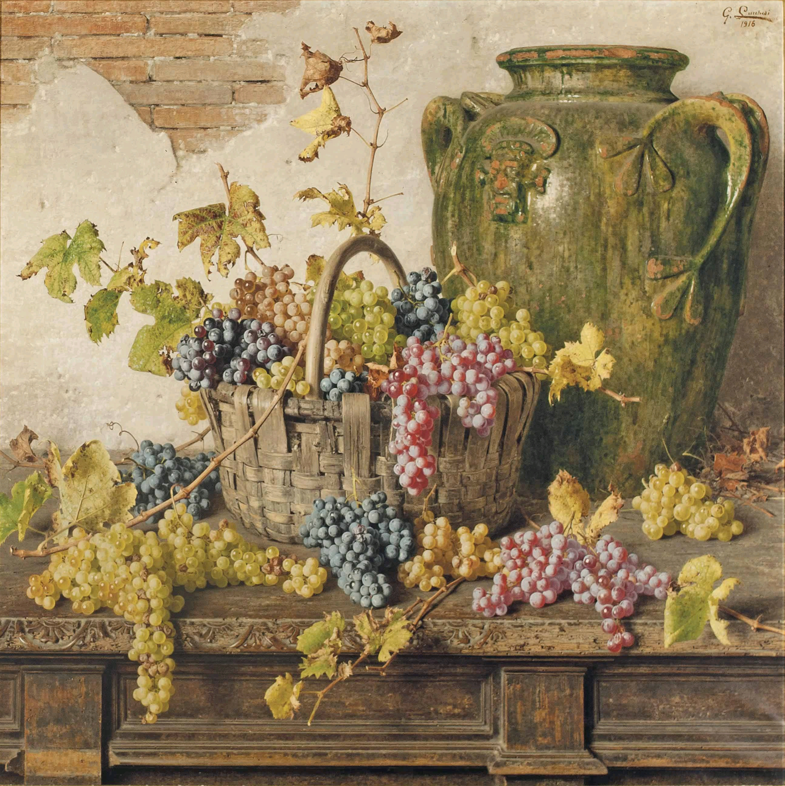 A basket of grapes by an amphor on a wooden table